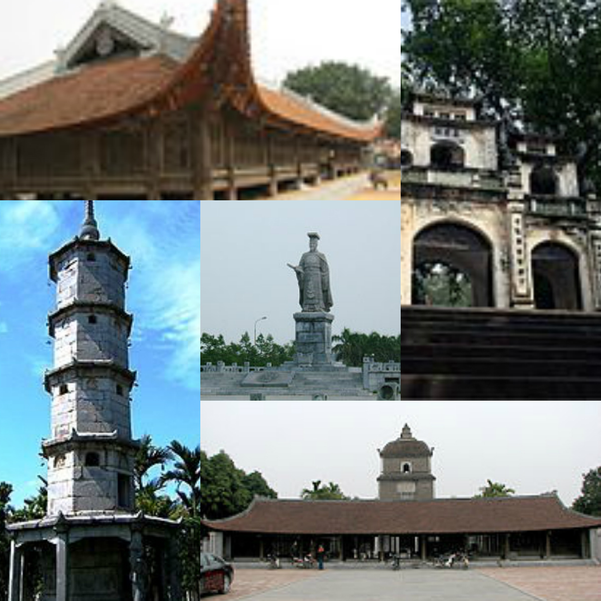 Combined images of landmarks in Bacninh Province